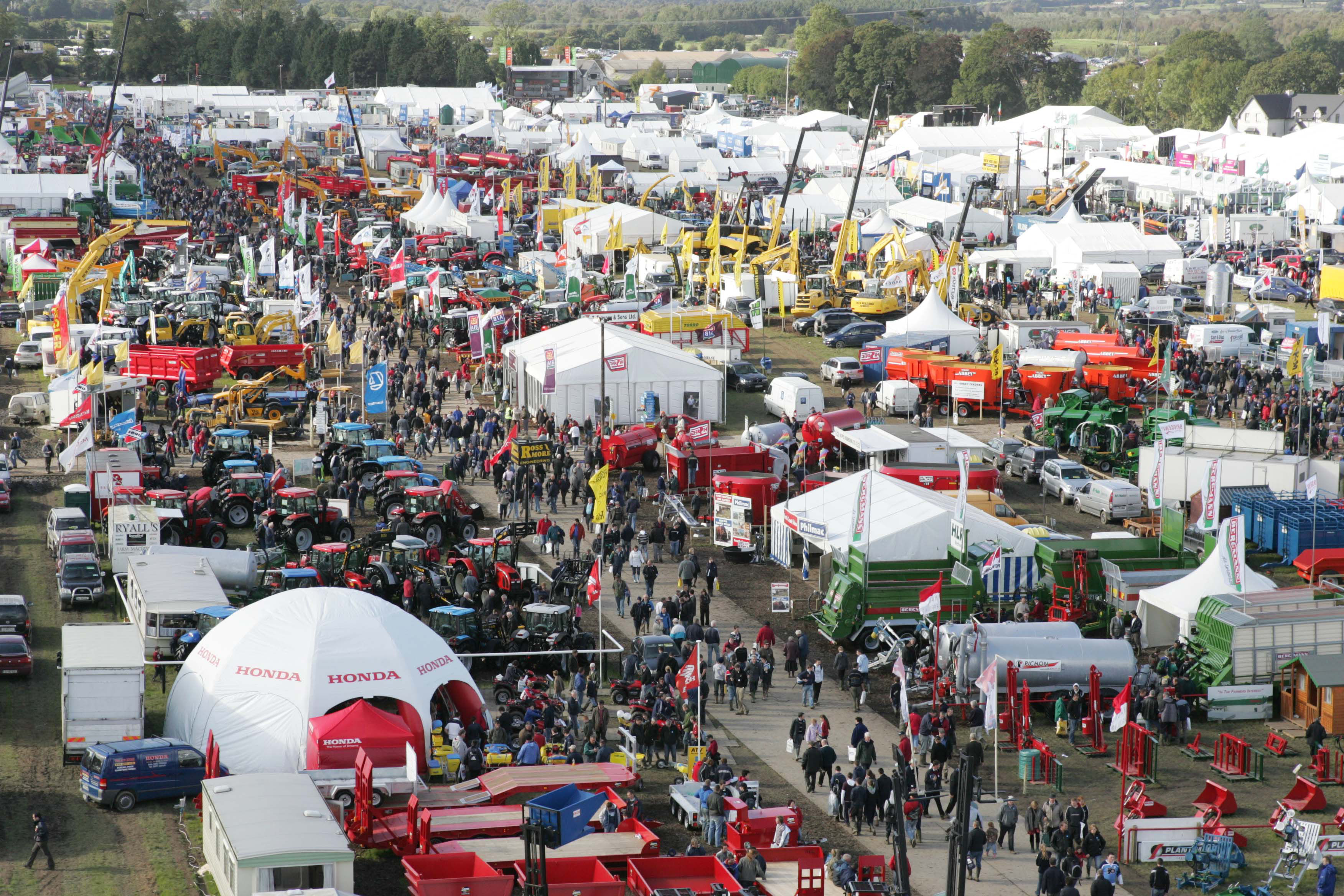 Bigday at the ploughing championships